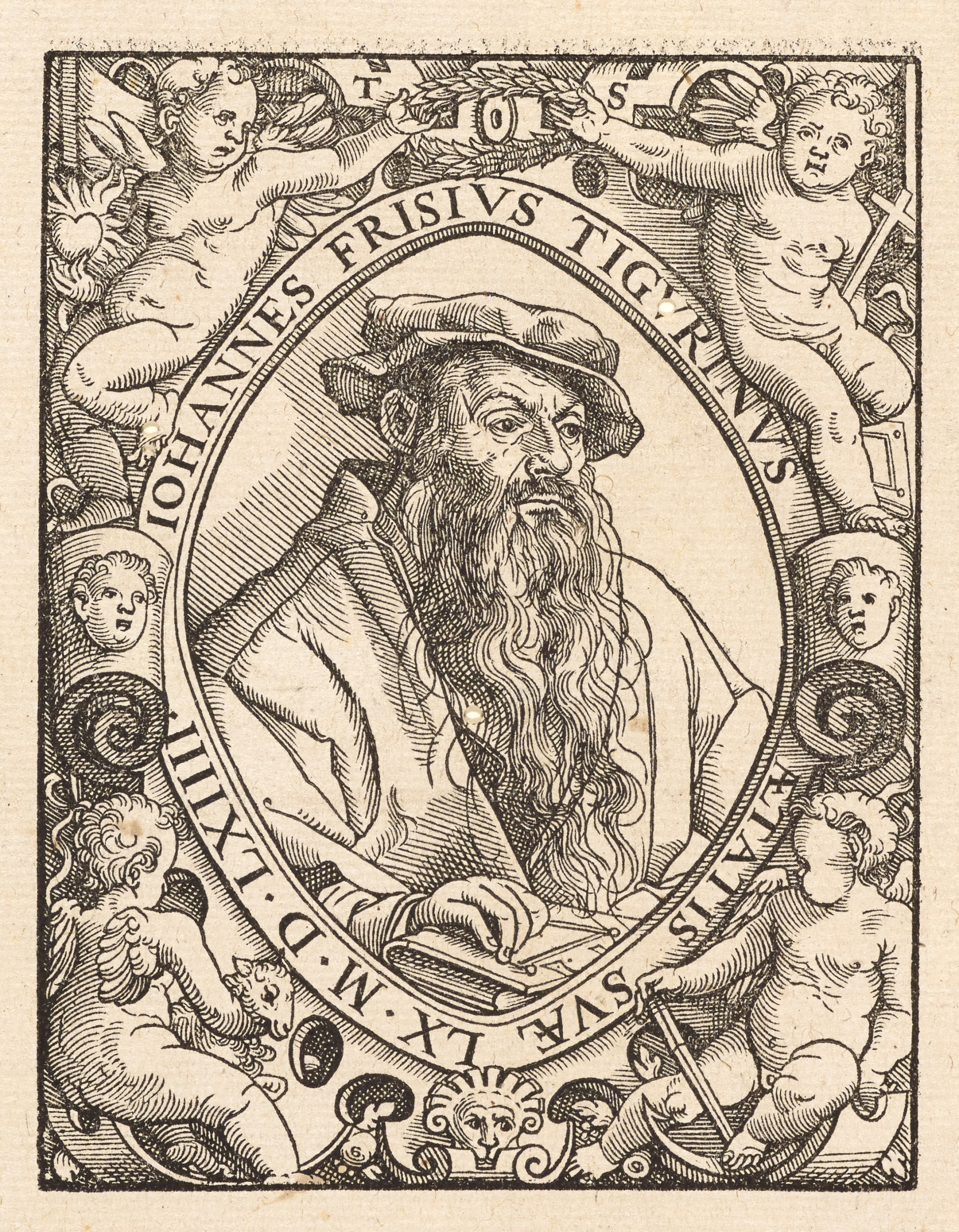 Bildnis des Johannes Fries (1505-1565)